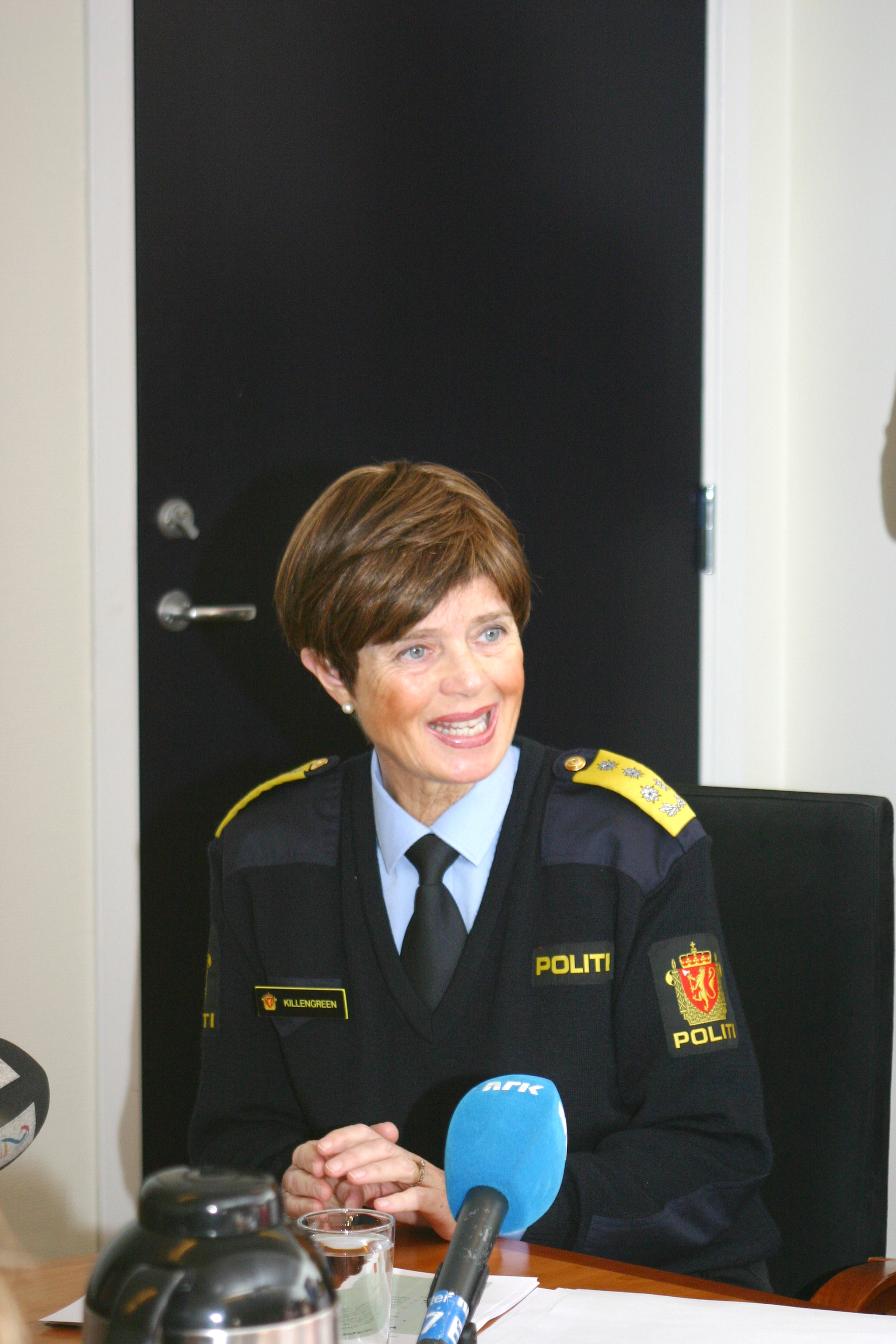 Norwegian Police Commissioner (2000 - 2011) Oslo Chief Constable (1994–2000)